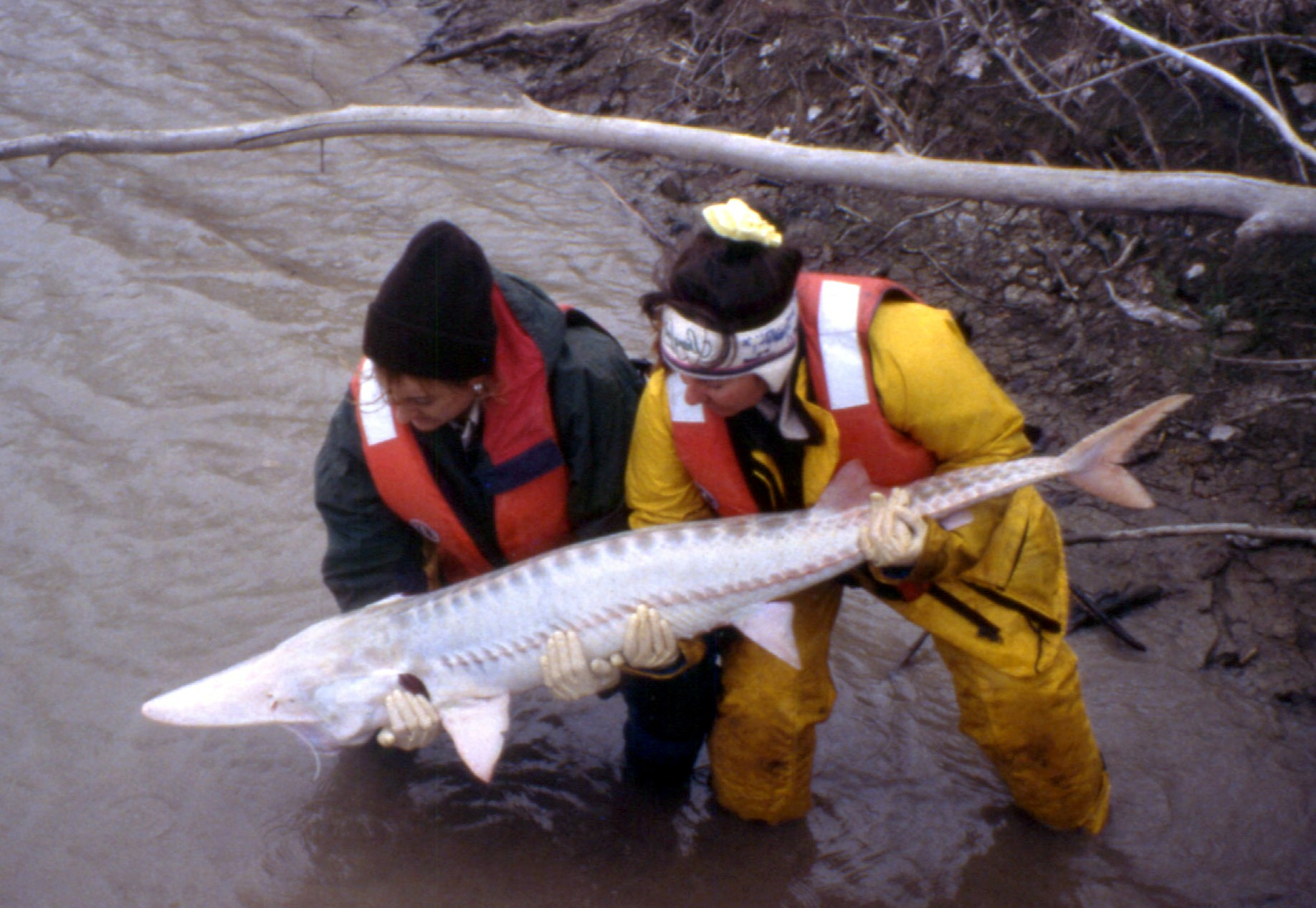 A Pallid sturgeon (Scaphirynchus albus) is released into Yellowstone River by U.S. Fish and Wildlife Service personnel